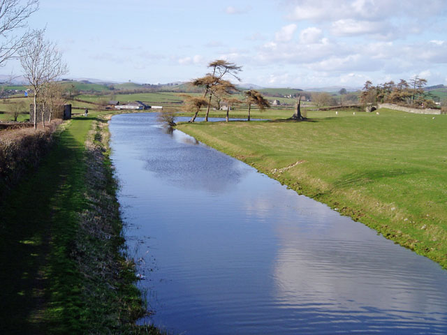 The Lancaster Canal at Farleton, Cumbria. Part of the Northern Reaches of the canal, rendered unnavigable by the construction of the M6 motorway.